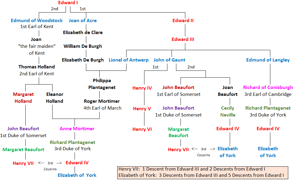 Common Royal Descent of Henry VII and Elizabeth of York uniting the houses of Lancaster and York.